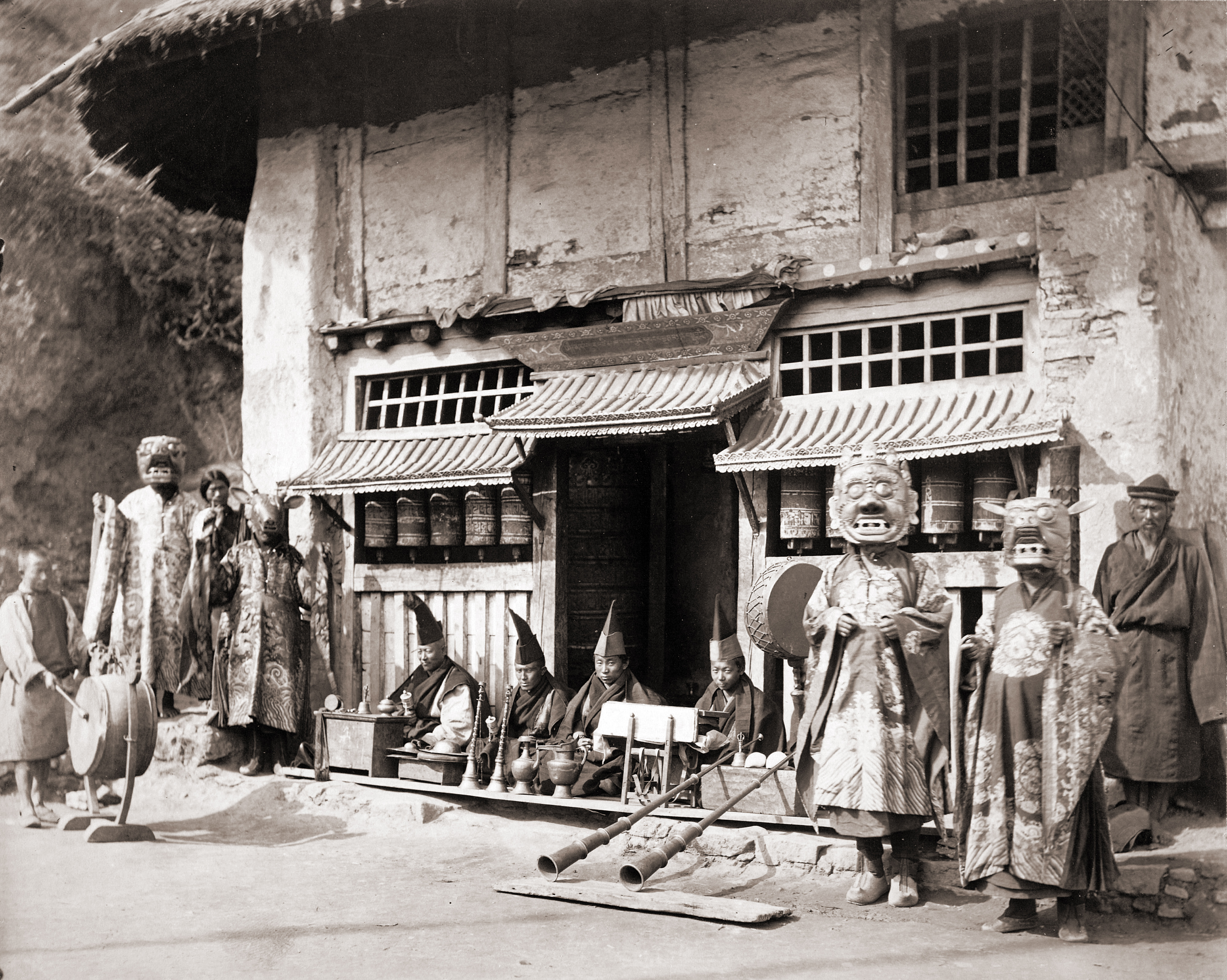 Buddhist Monastery, at Bhutia Basti, below Darjeeling. One a series of views and ethnographical studies taken at Darjeeling